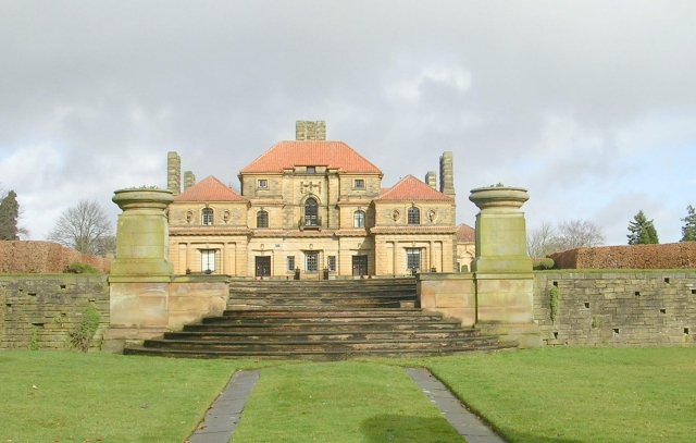 Heathcote - viewed from Grove Road Designed by Sir Edwin Lutyens in 1905.